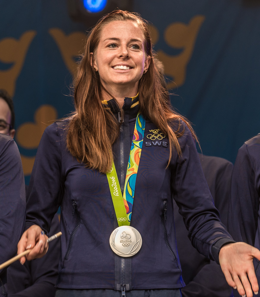 Olympic silvermedalists Lotta Schelin hailed in Kungsträdgården in Stockholm August 21, 2016.